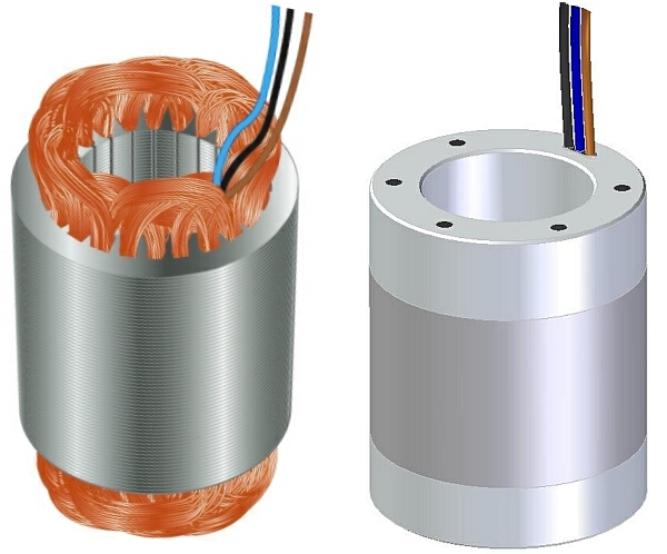 Standard Stator (left) / ALKATM-Stator (right)